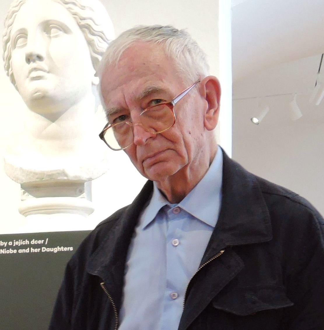 Prof.Jan Bouzek in Duchcov 2.6.2016